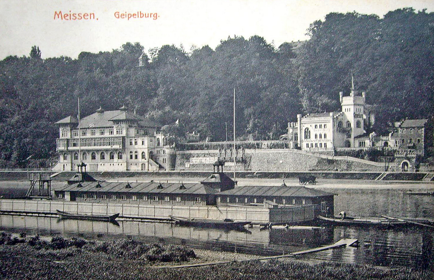 Castle "Geipelburg" in german city Meissen, postcard before 1937